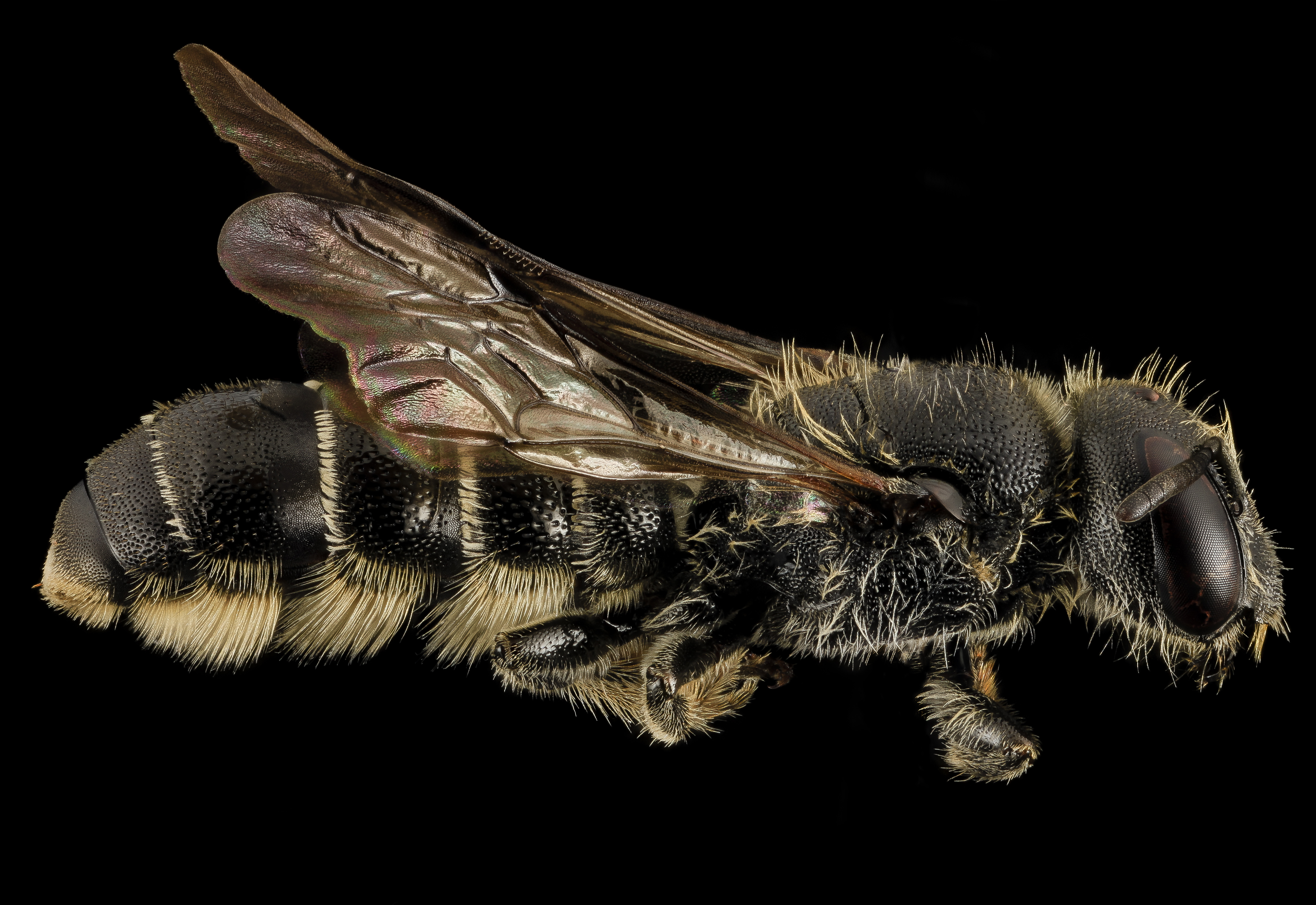 Rear view of a male Chelostoma Rapunculi Side, MA, Middlesex County